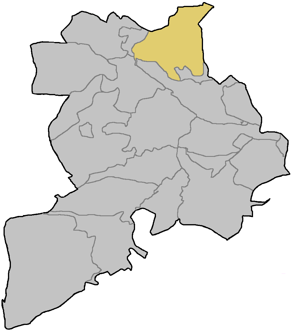 Locator map of Pesterwitz in Freital